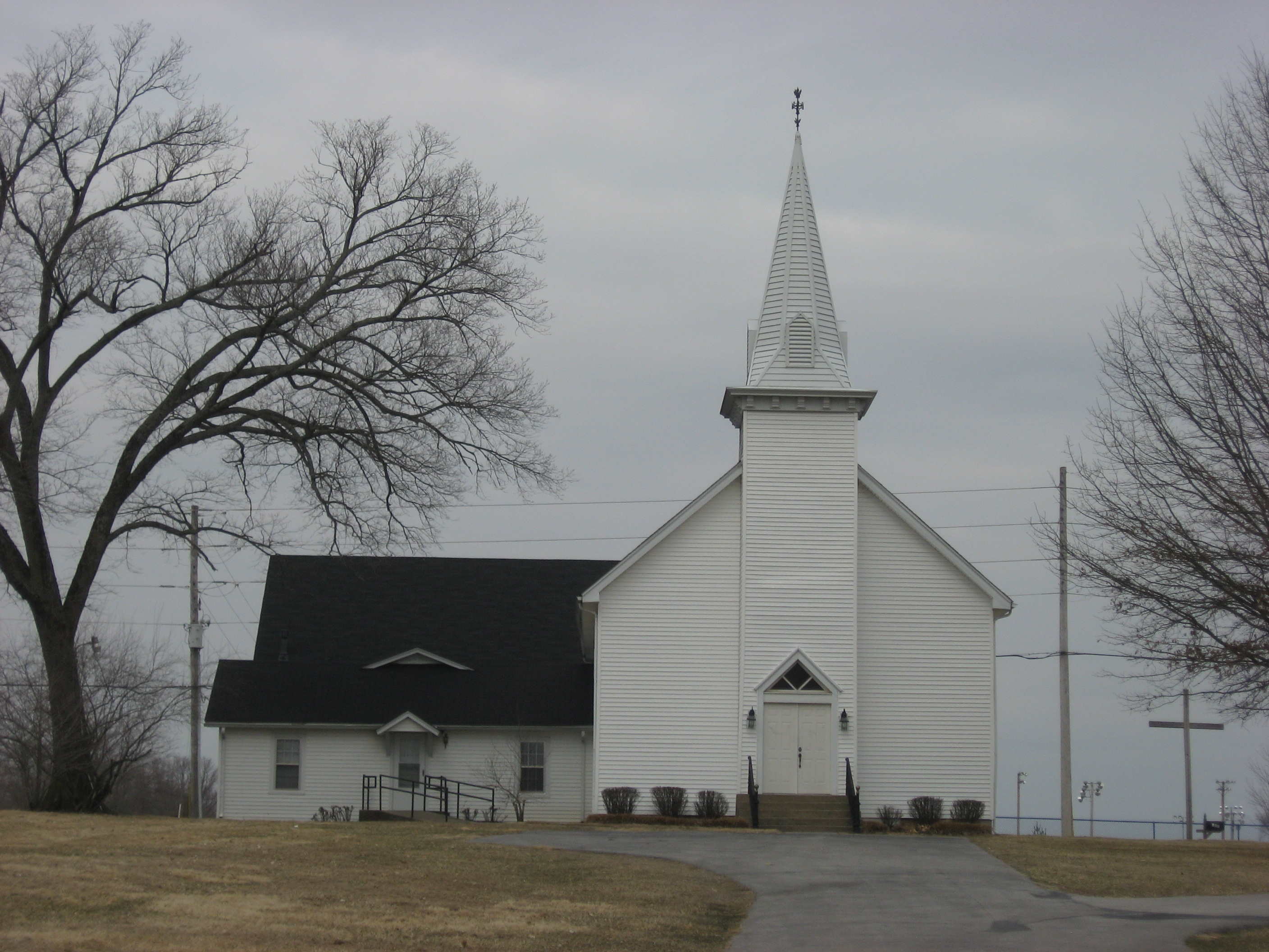 Front of the Fairview Methodist Church, located at 336 Mount Olivet Road (Kentucky Route 526) northeast of Bowling Green in Warren County, Kentucky, United States. Built in the fourth quarter of the nineteenth century, it is listed on the National Register of Historic Places.